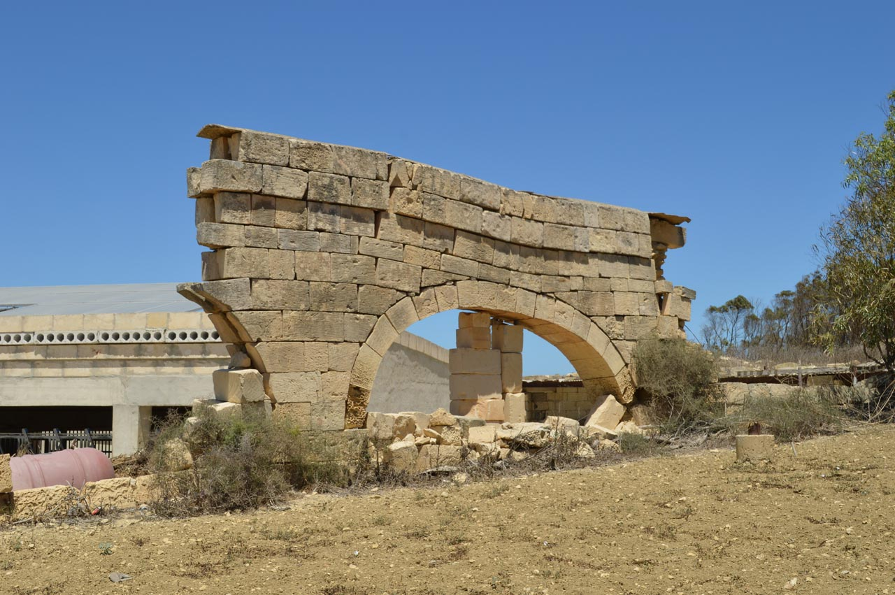 Gozo fortified tower, windmills, aqueduct